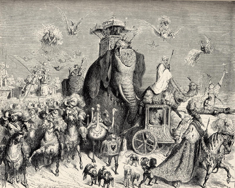 Illustration for Charles Perrault's Peau d'ane. Gustave Doré's illustrations appear in an 1867 edition entitled Les Contes de Perrault. Sixth of six engravings